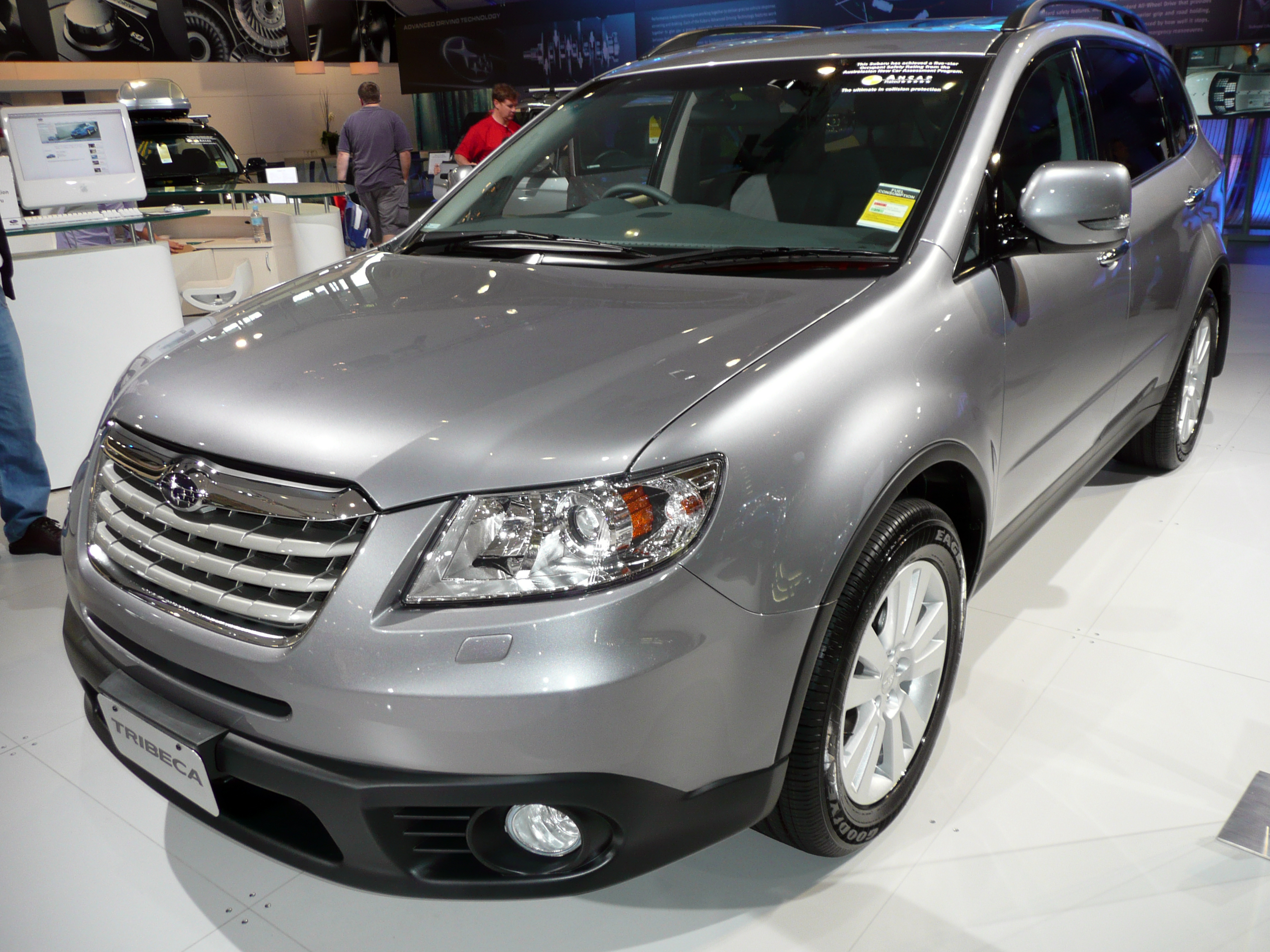 2007 Subaru Tribeca (B9 MY08) R Premium Pack wagon. Photographed at the 2007 Australian International Motor Show, Sydney, New South Wales, Australia.